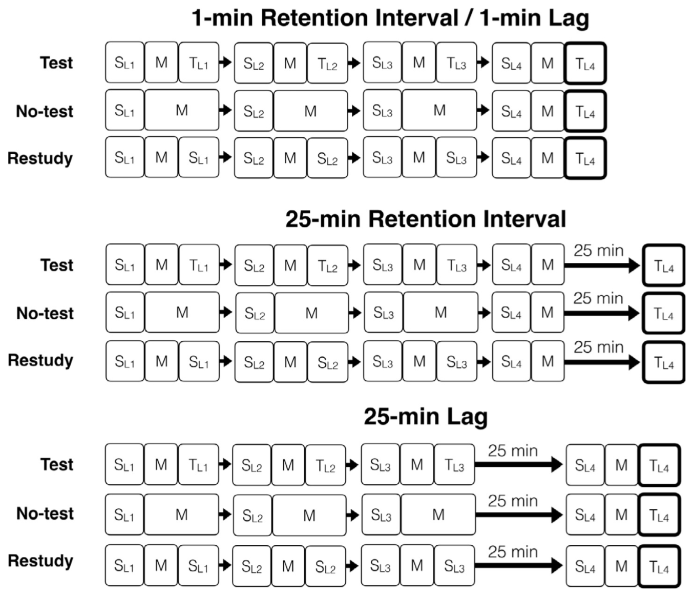 Experimental design for the three experiments in Chan, Manley, Davis and Szpunar's experiment.